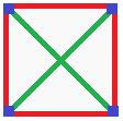 Tetrahedron diagram of symmetry